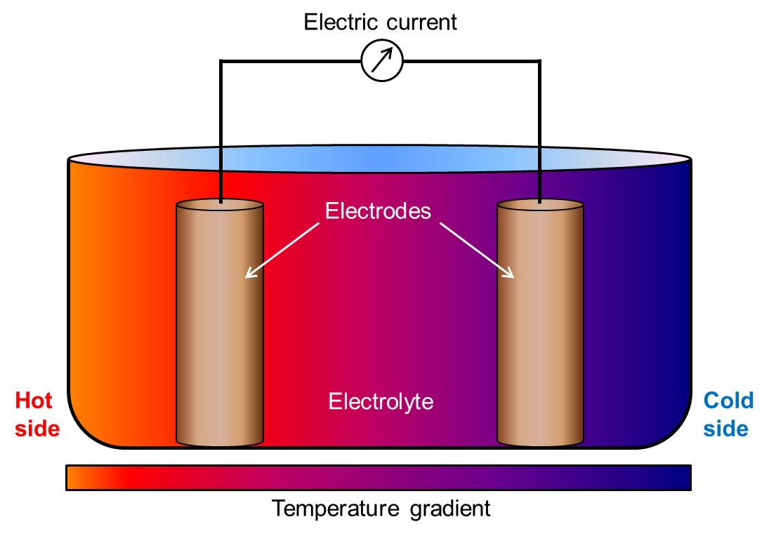 Simple scheme of a thermogalvanic cell. The basic elements of such a cell (electrodes, electrolyte solution and external circuit) are depicted along with the temperature gradient that empowers the cell.